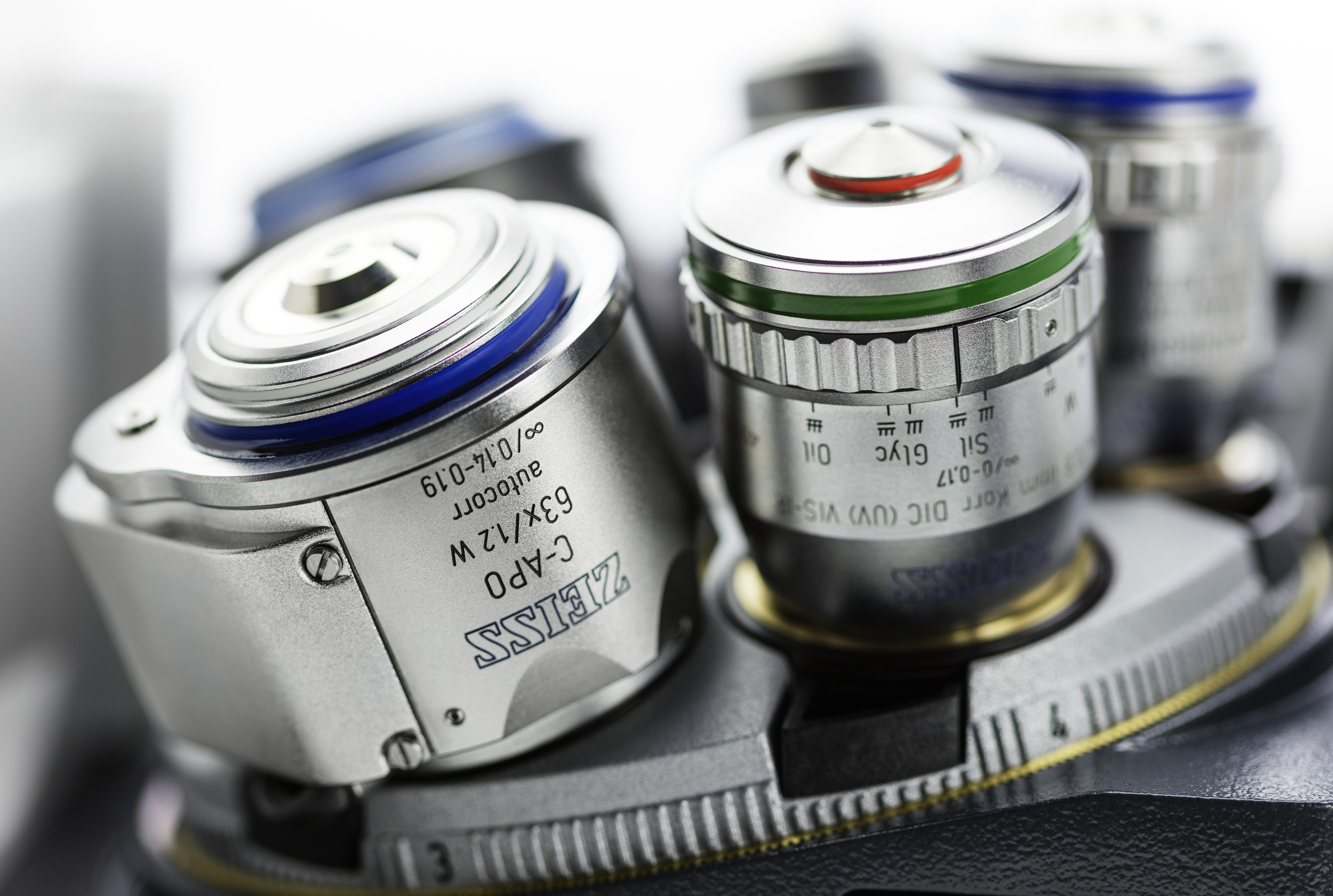 To image subcellular structures you need objectives with a high numerical aperture. But the resulting wide opening angle makes them especially susceptible to spherical aberrations caused by different refractive indices and interfaces in both the optical system and the sample. With Autocorr - a new generation of objectives - you simply adjust the optics of your microscope to your sample. Expect crisp contrast even deep inside in your specimen. And much more efficient fluorescence detection. You will get better data while less excitation intensity will improve the viability of your samples. Images donated as part of a GLAM collaboration with Carl Zeiss Microscopy - please contact Andy Mabbett for details.